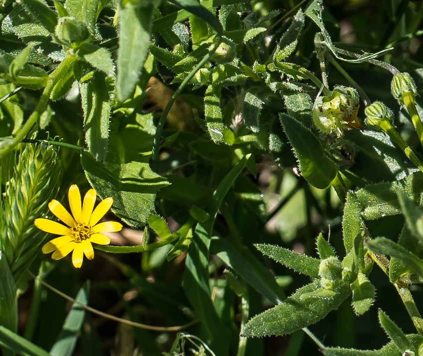 Calendula stellata, Canary Islands